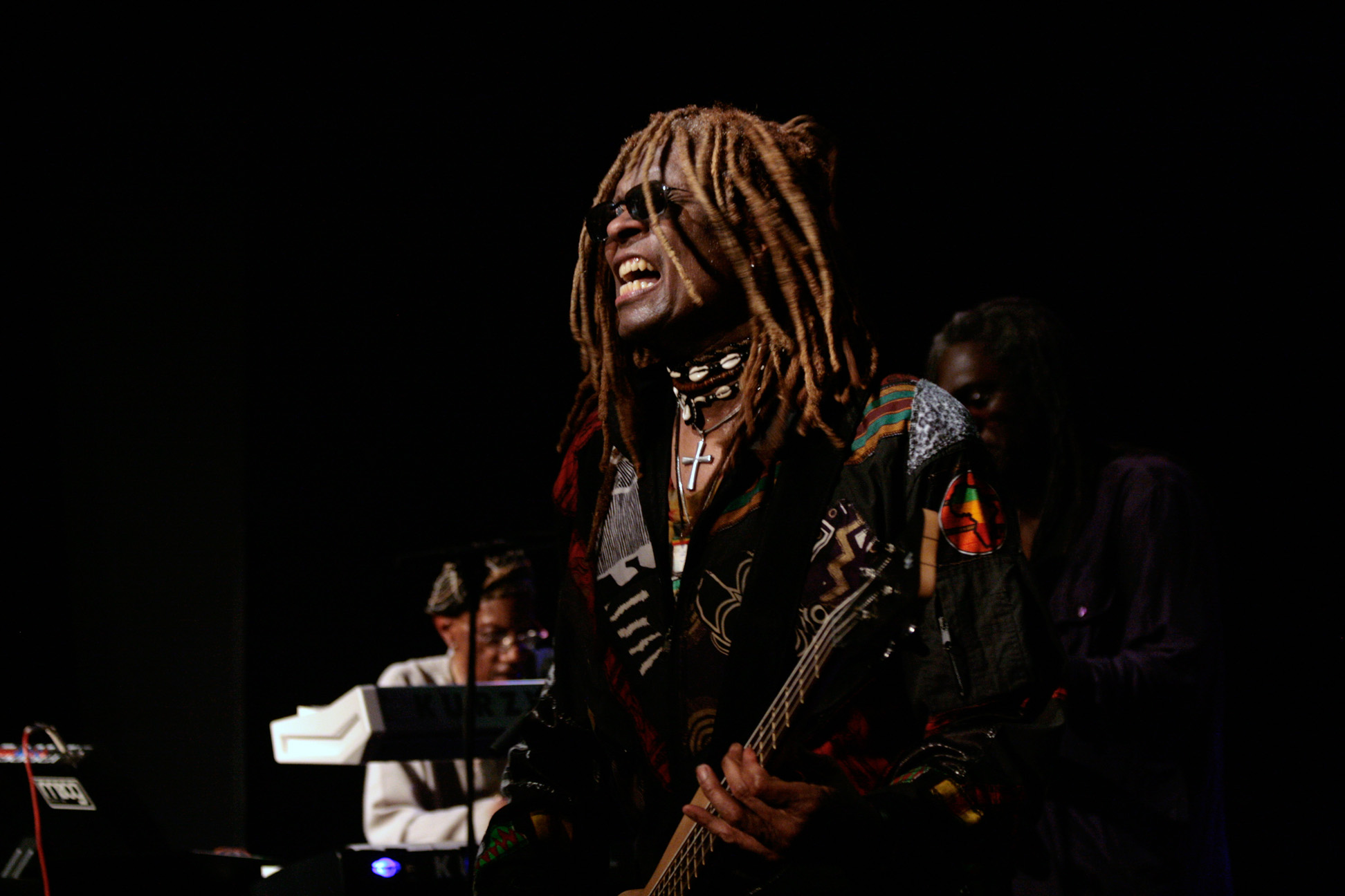 T. M. Stevens, DeWayne "Blackbyrd" McKnight and Bernie_Worrell; concert with SociaLibrium at the jazz club Porgy & Bess in Vienna